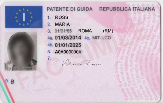 Specimen for the European driving licence used in Italy, front side